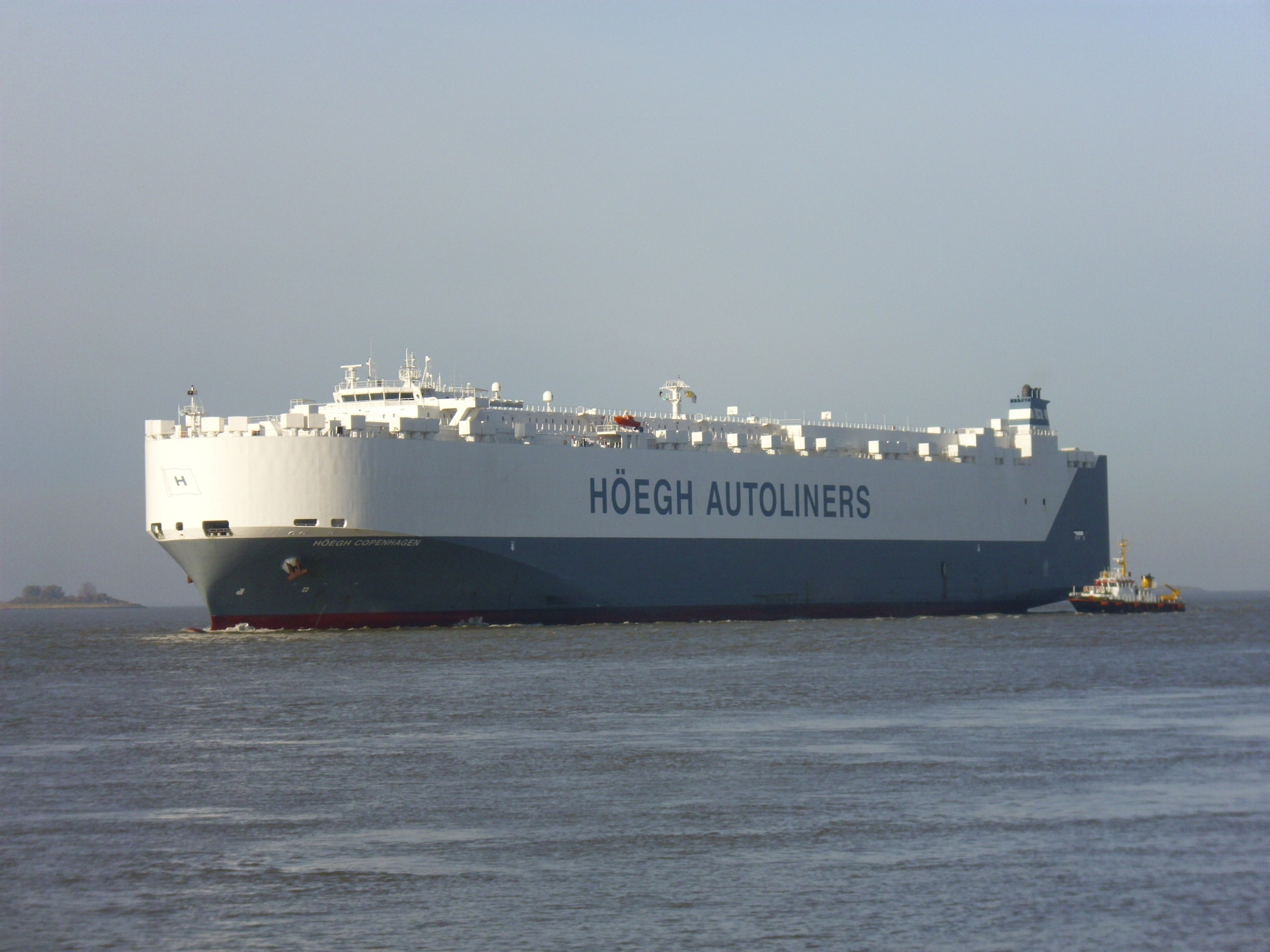 The car carrier Höegh Copenhagen inbound on the river Weser on the way to Bremen